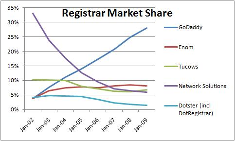 Market share of domain name registrars